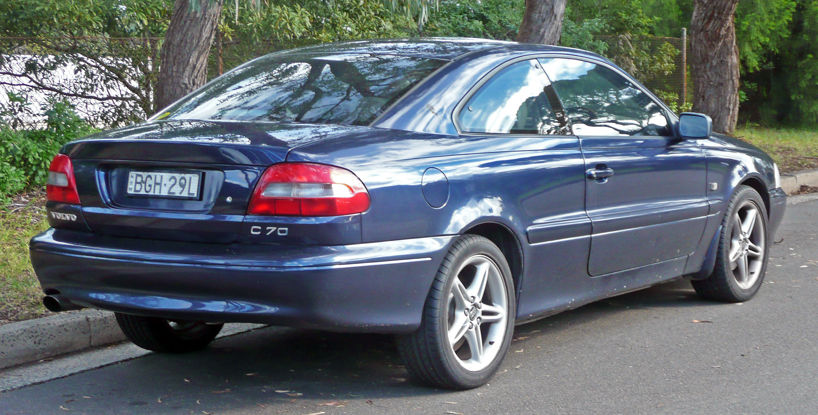 1998–2002 Volvo C70 coupe. Photographed in Kirrawee, New South Wales, Australia.